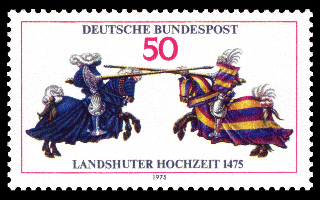 500 years of landshut wedding Ausgabepreis: 50 Pfennig First Day of Issue / Erstausgabetag: 15. Mai 1975 Michel-Katalog-Nr: 844